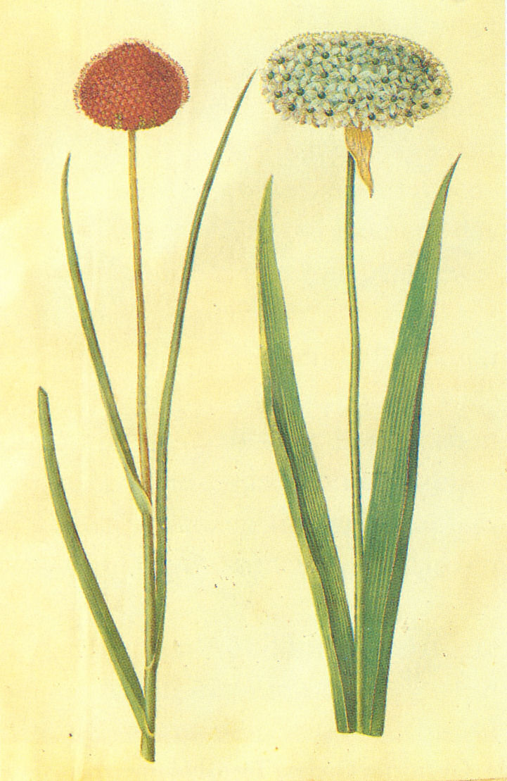 Allium sphaerocephalon, gouache on vellum, in: Gottorfer Codex